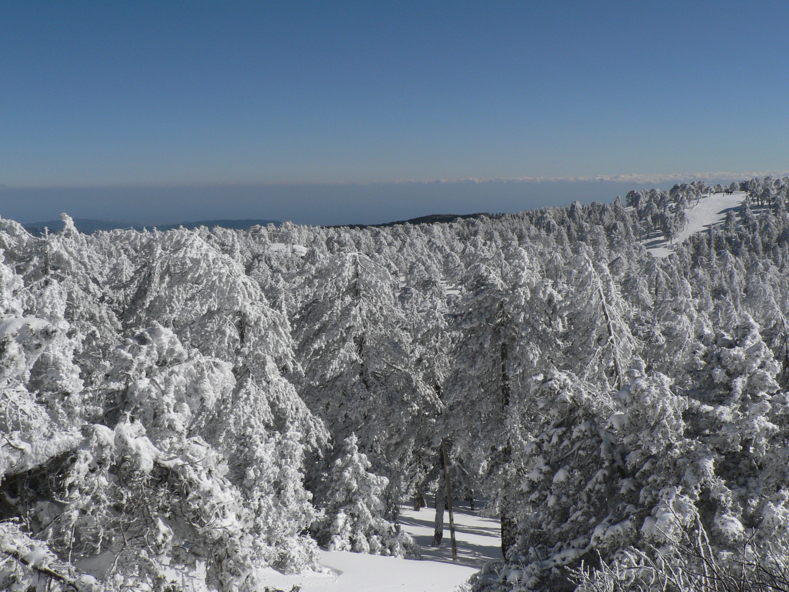 Winter view of the forest of Chionistra, in the Troodos Mountains in west-central Cyprus. Identifiable trees are Pinus nigra.